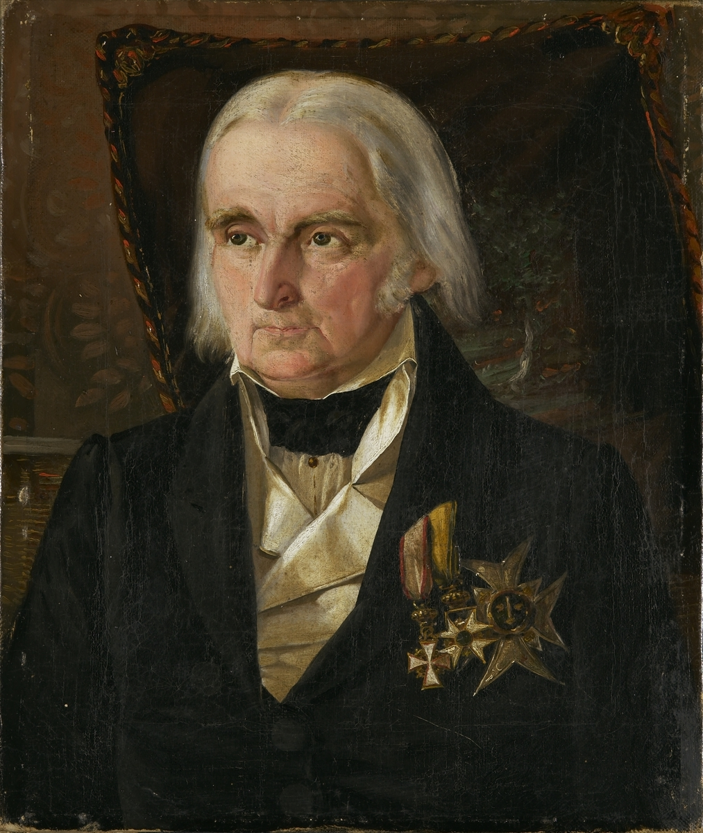 Norwegian admiral Jens Schow Fabricius painted with his orders Order of the Dannebrog, Order of the Sword and Knight of the Order of the Sword.